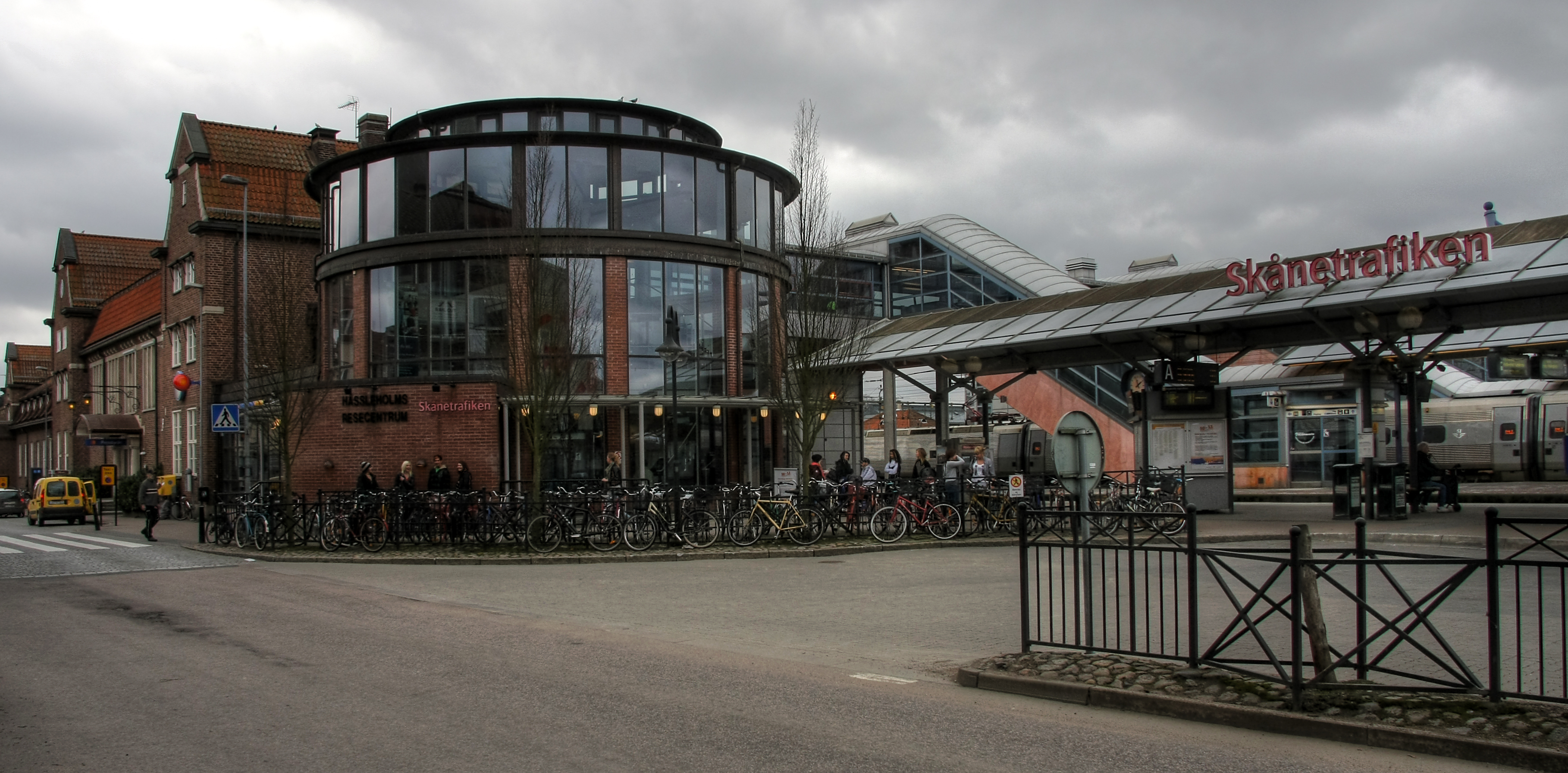 Hässleholm travel center